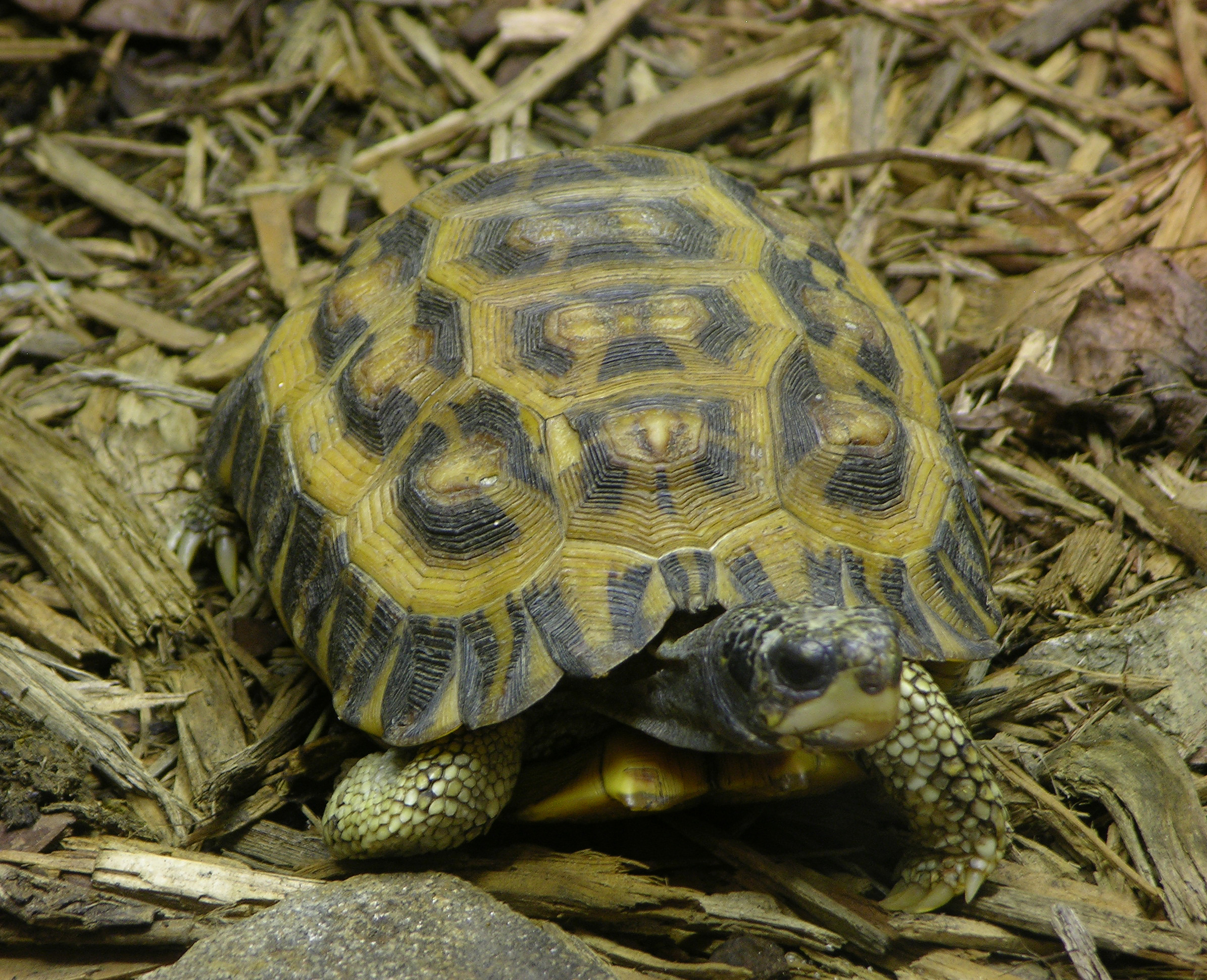 A photograph of the Flat-tailed Tortoiseen (Pyxis planicauda en ). Photo taken at the Philadelphia Zoo.